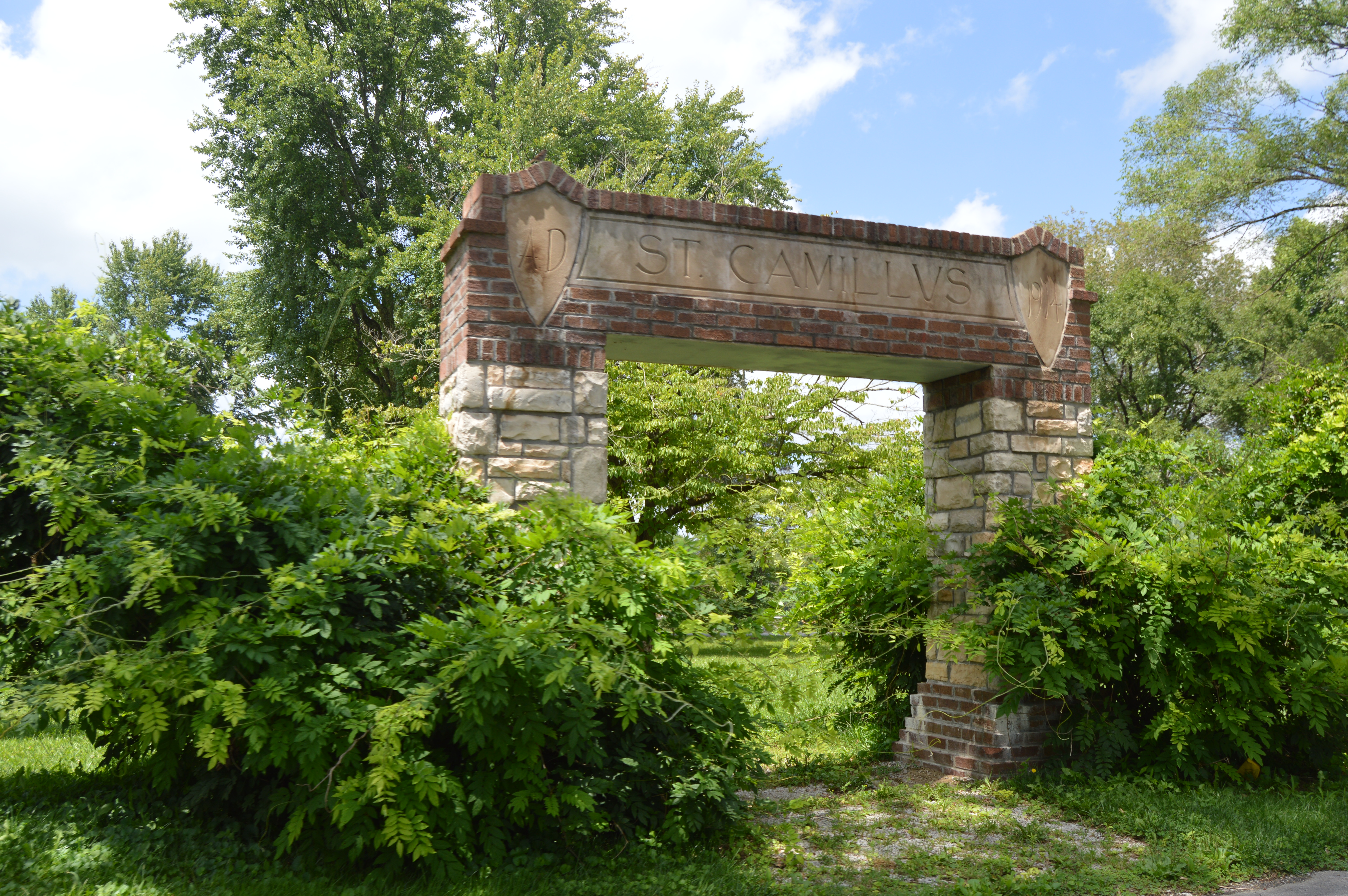 The post and lintel around what was formerly the entrance to the original building of Saint Camillus Academy, located at the eastern terminus of Roy Kidd Avenue in Corbin, Kentucky, United States. Built in 1915, it was listed on the National Register of Historic Places in 1986; although demolished in 2008, it has not yet been undesignated.